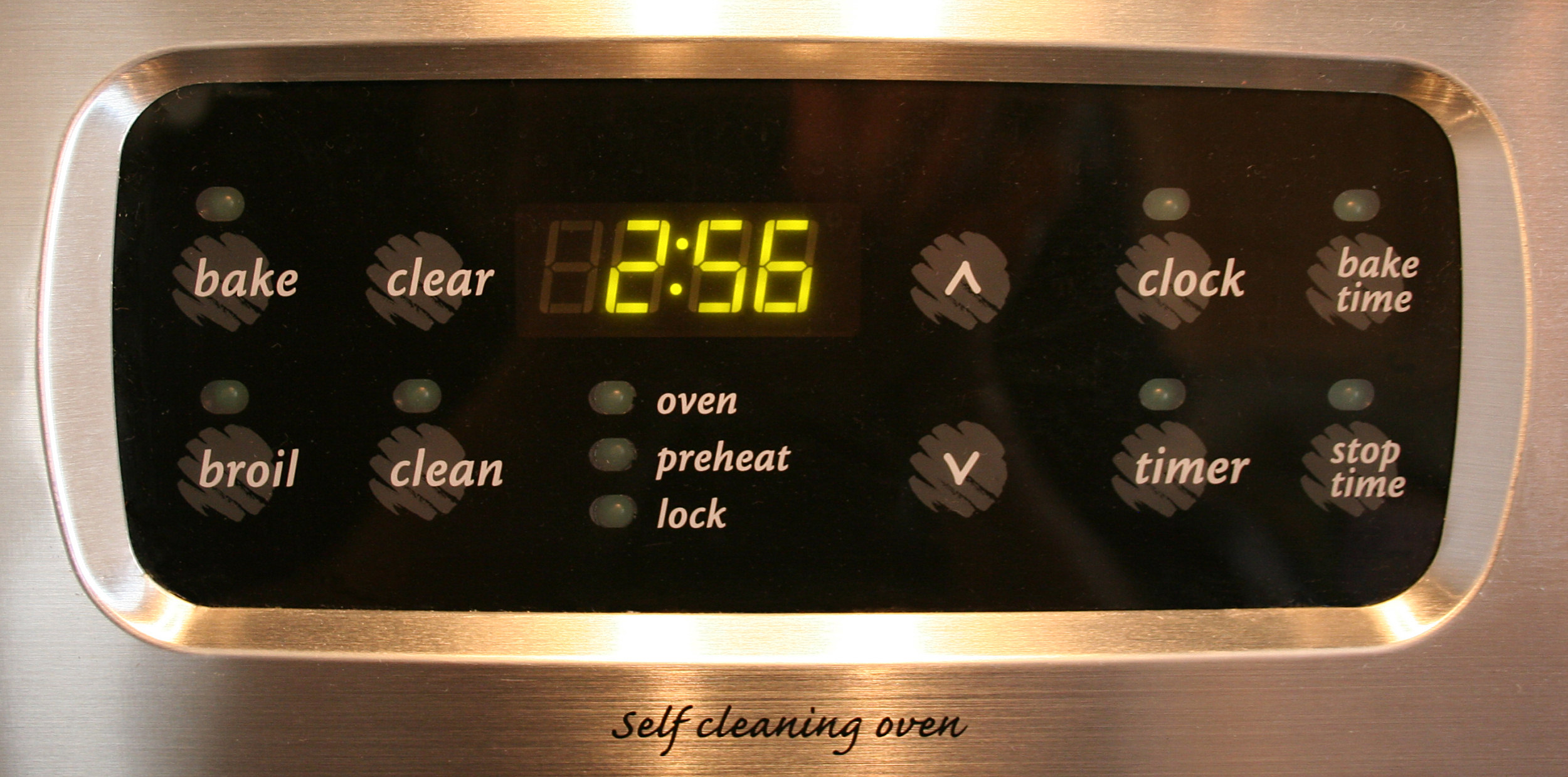 Digital clock in an oven. Photo shot by Derek Jensen (Tysto), 2005-September-30